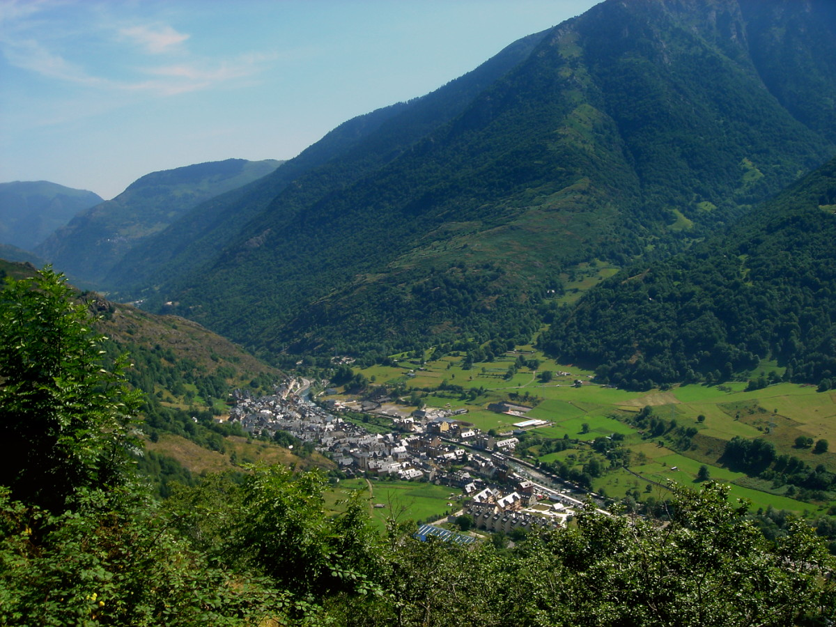 Bossòst